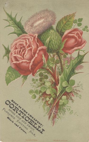 Persistent URL: Subject (TGM): Roses; Flowers; Plants; Thistles; Silk; Sewing equipment & supplies; Thread industry; Keywords: Corticelli Spool Silk and Twist Florence Knitting Silk